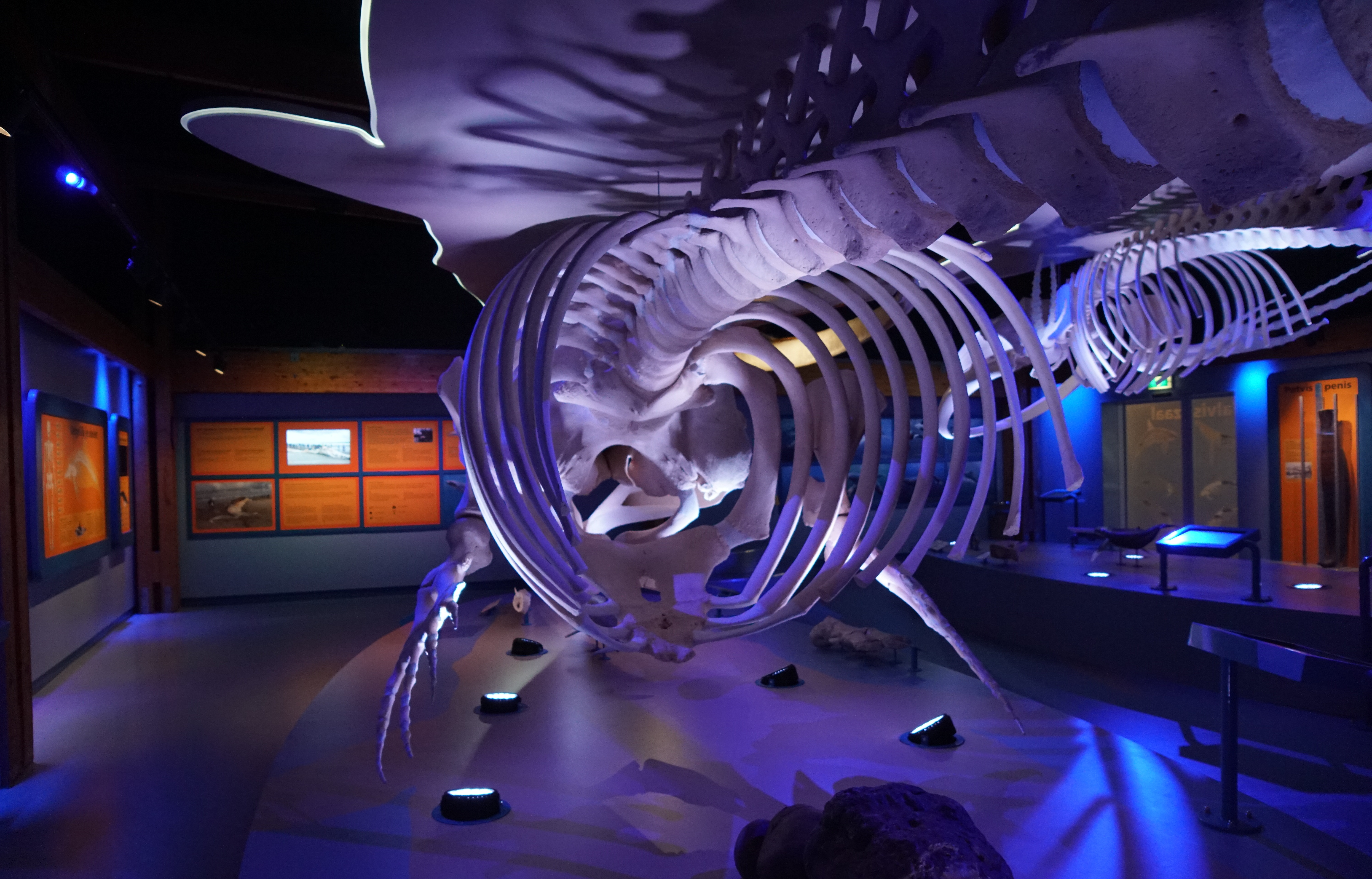 Ecomare, Texel, The Netherlands. Whale skeleton.